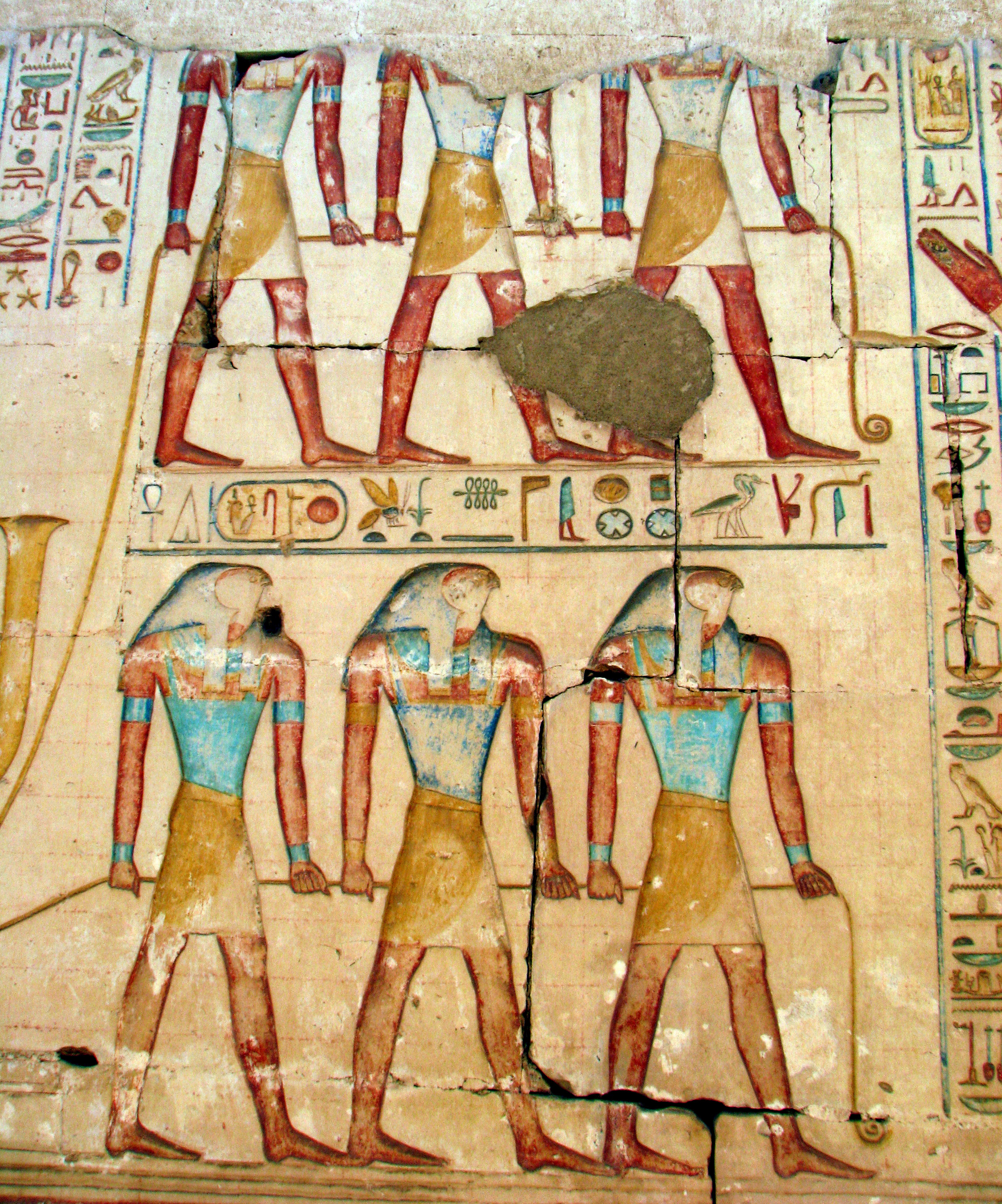 The souls of Pe and Nekhen towing the royal bargue on a relief of Ramesses II's temple in Abydos. In the upper register the jackal-headed (heads missing) souls of Nekhen, in the lower register the falcon-headed souls of Pe (Buto), as the souls of royal precedessors of the pharaoh, helpers in the afterlife. The hieroglyph text between them is: "The words of the souls of Pe and Nehen are said: O, come to the protection of the god, king of Lower- and Upper Egypt, User-Maat-Ra Setep-en-Ra!"